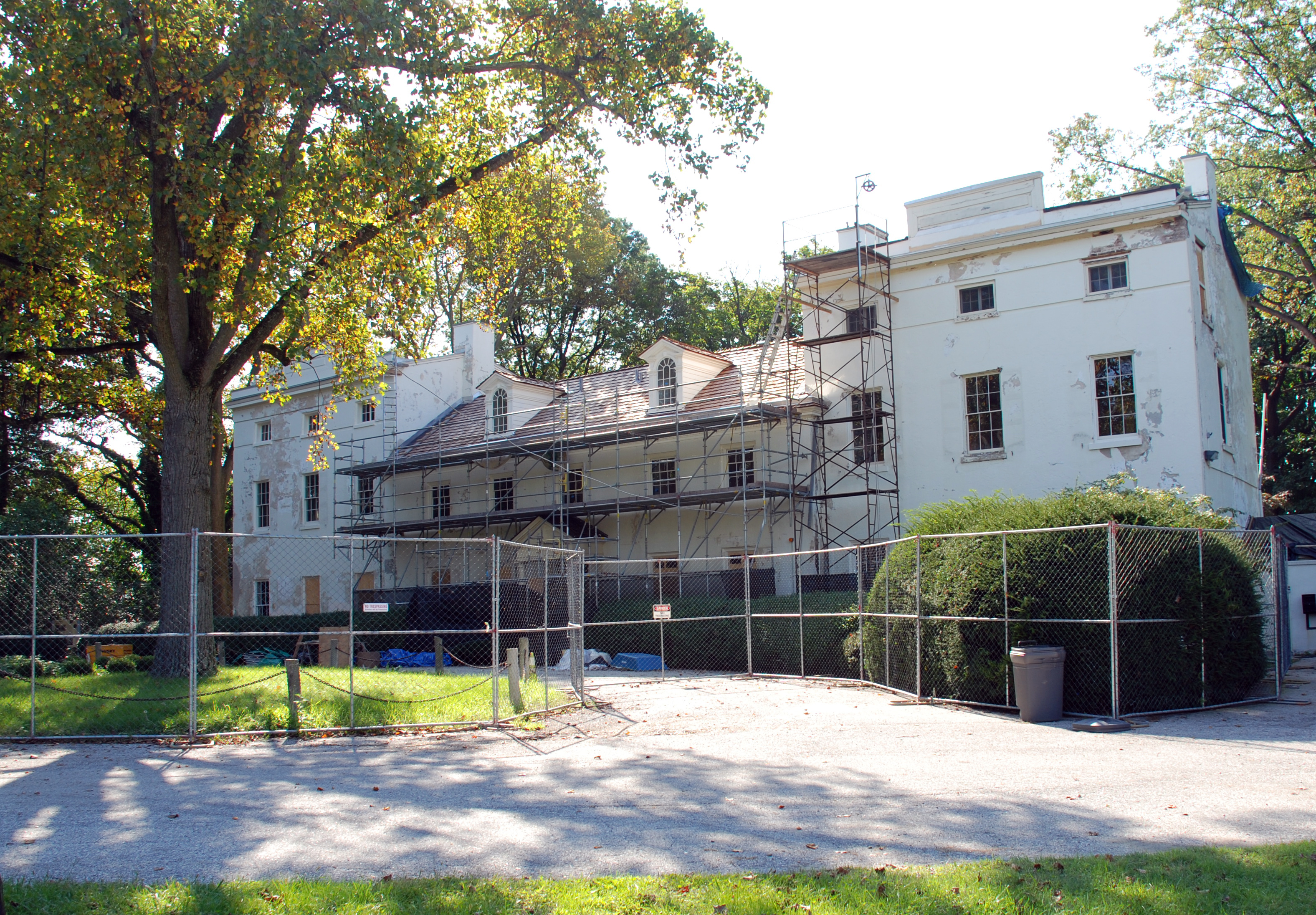 Historic Strawberry Mansion, off of Ridge Ave & 33rd street